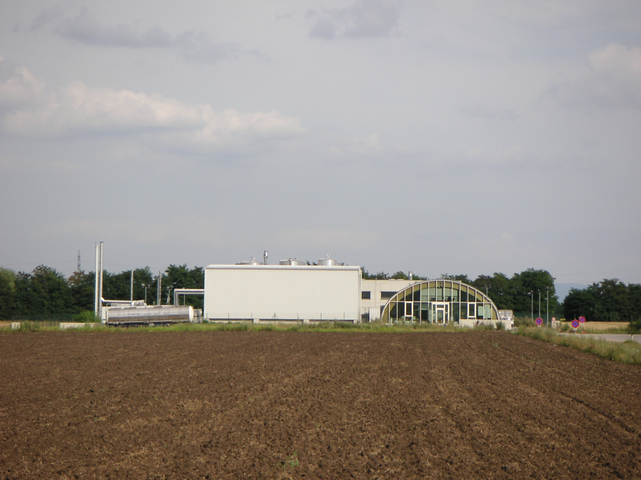 biodiesel refinery near Zistersdorf, Austria